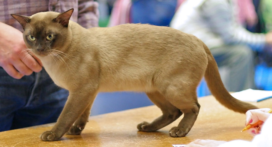 IC Bjelke's Niilo [BUR b] male EX1 CAGCIB BIV NOM catshow.fi, timestamp/aikaleima: 2007-09-29 10:30:58, f-number/aukko: 1.8, exposure time/valotusaika: 1/160 s, sensitivity/herkkyys: ISO 1600, focal length/polttoväli: 50 mm, flash/salama: no/ei, lens/objektiivi: Canon EF 50mm f/1.4 USM, body/runko: Canon EOS 20D